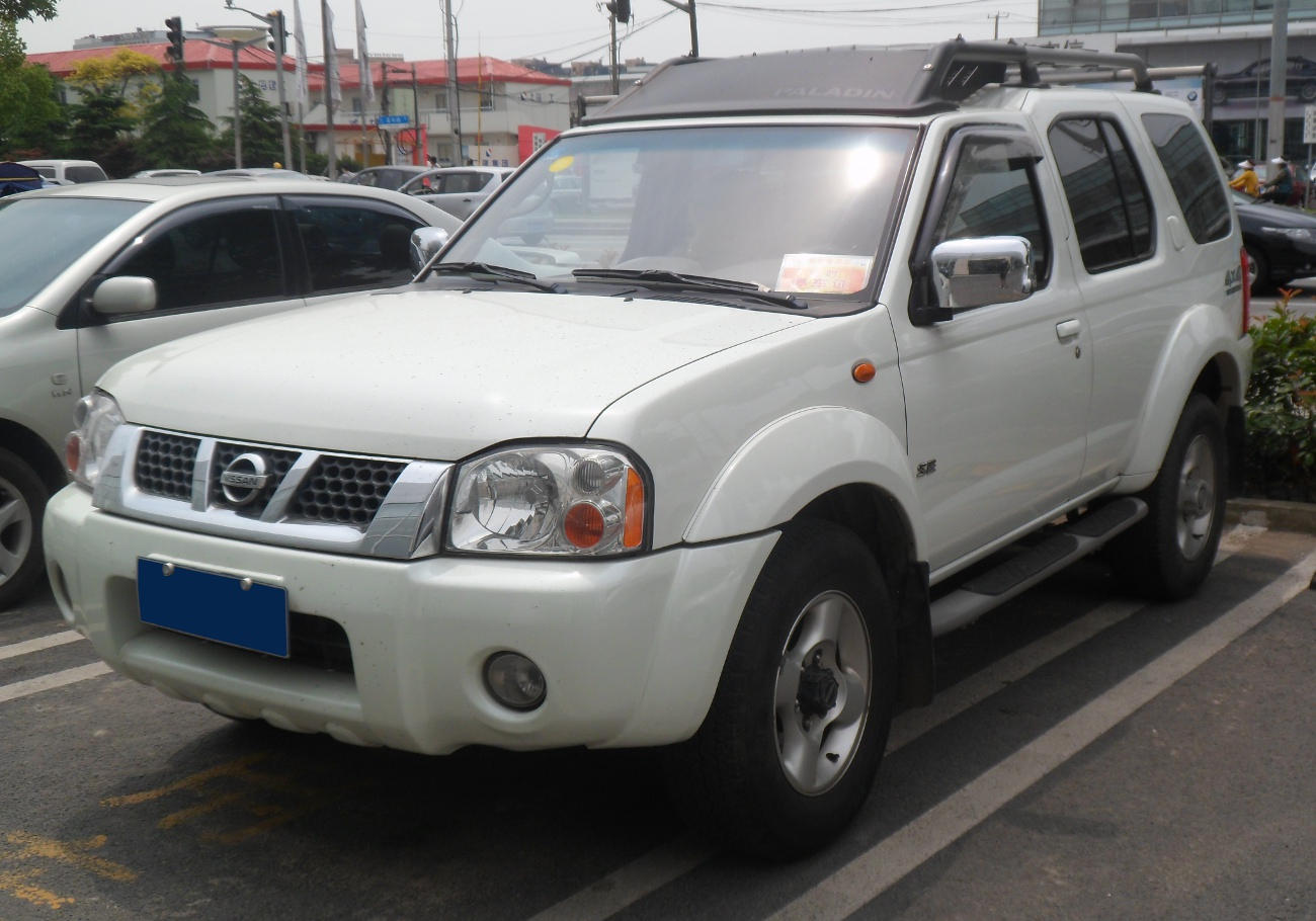 Nissan Paladin photographed in Shanghai, China.